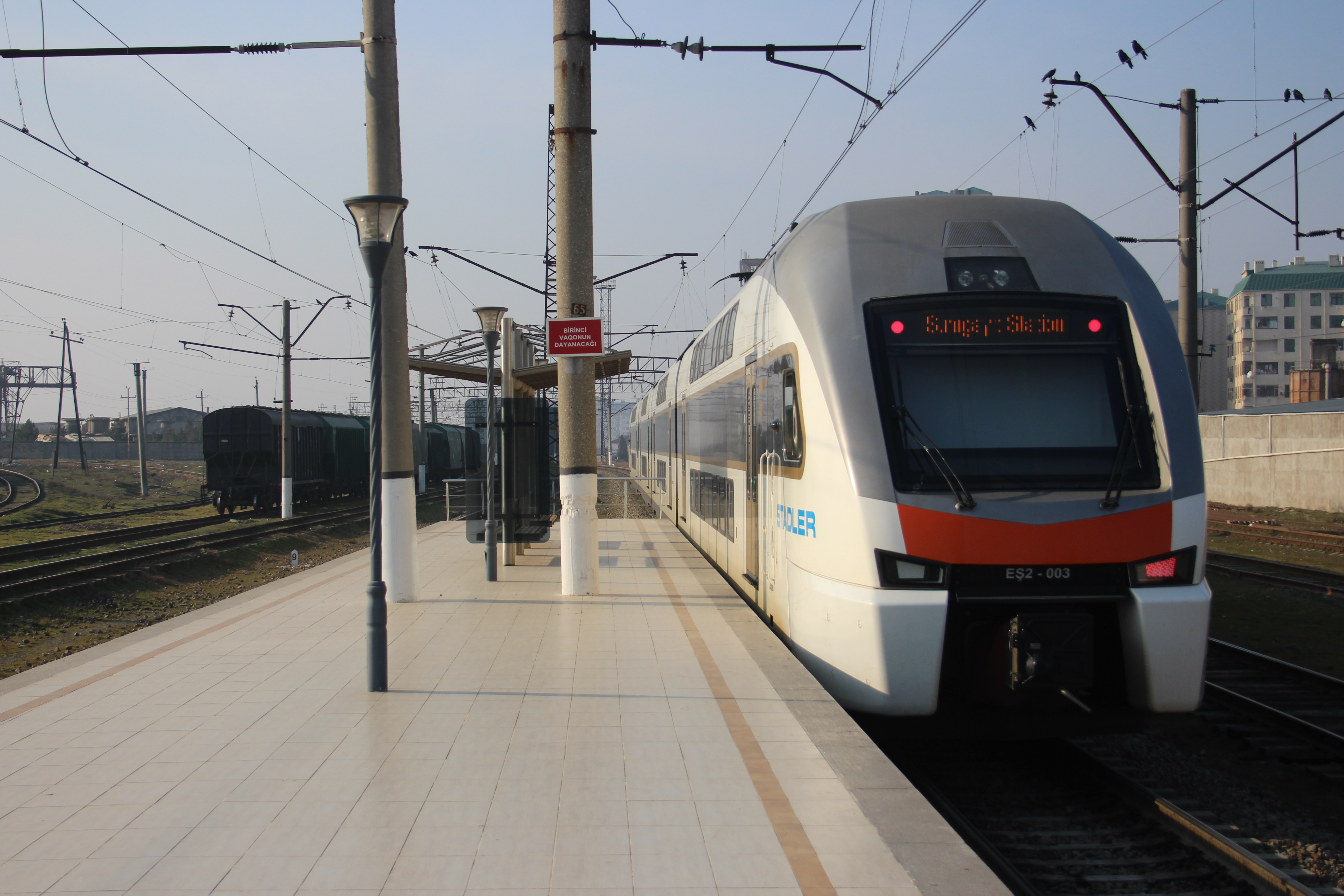 An ADY ESh2 class at Xırdalan, working the 16:00 train from Baku to Sumqayıt. This is a Stadler KISS 'Eurasia' EMU built for ADY.